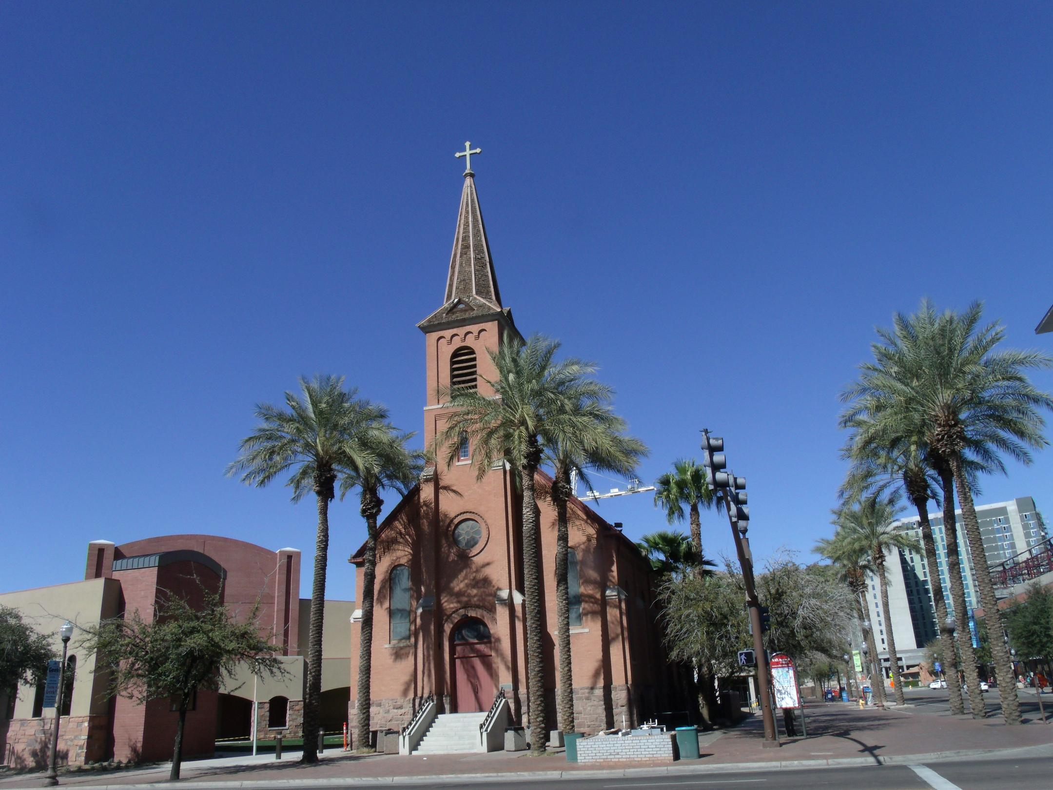 St. Mary's Church - Our Lady of Mount Carmel Catholic Church, built in 1903 in Tempe, Az.